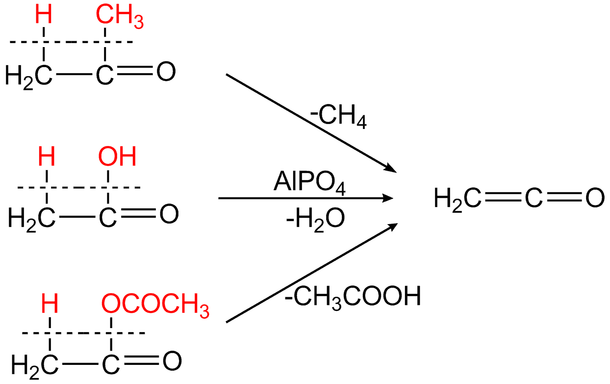 Ketene preparation